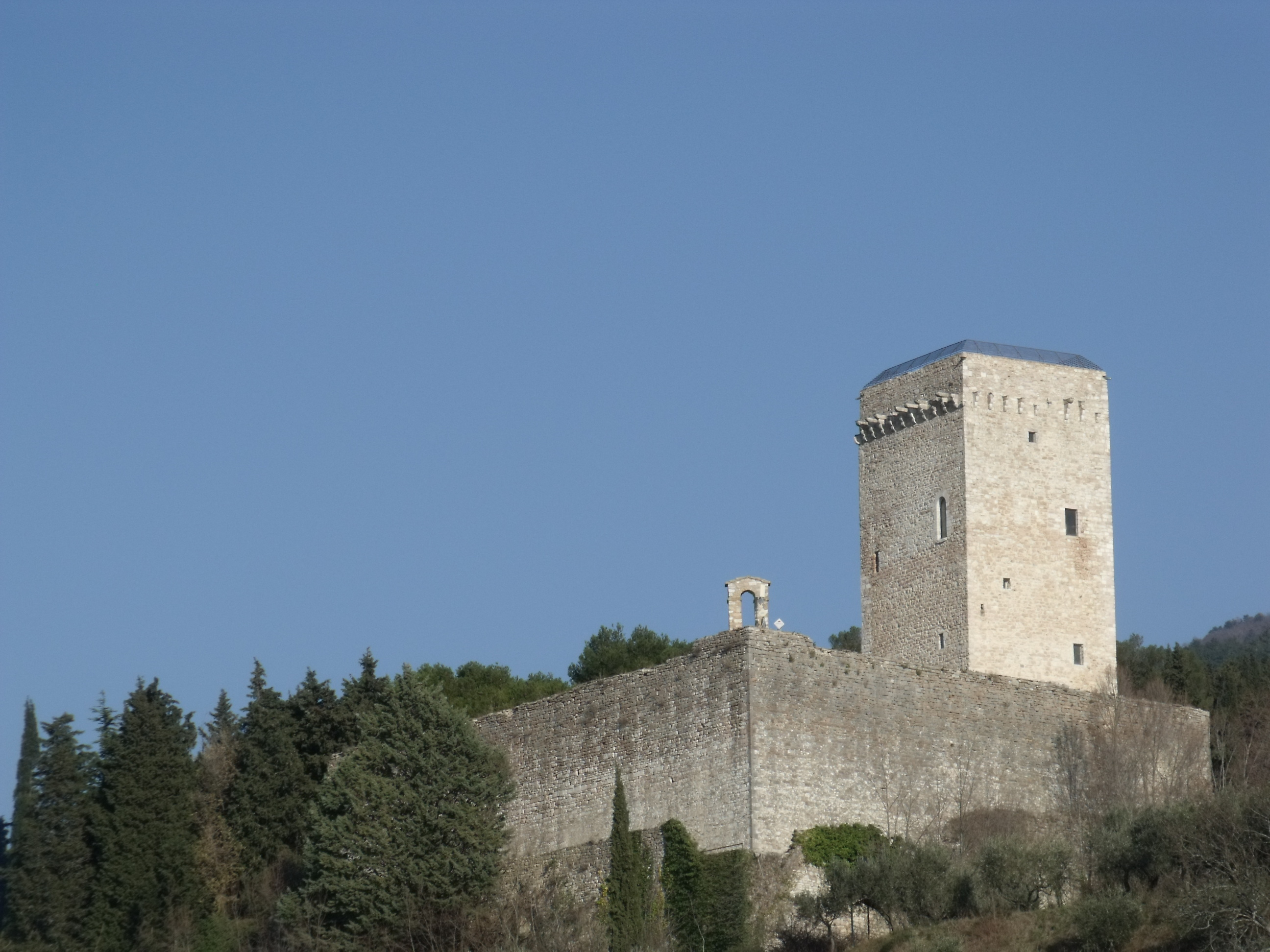 Castle Rocca Minore in Assisi, Province of Perugia, Umbria, Italy